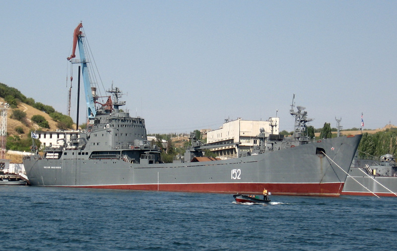 Large landing ship project 1171 Nikorai Fil'chenkov in Sevastopol.